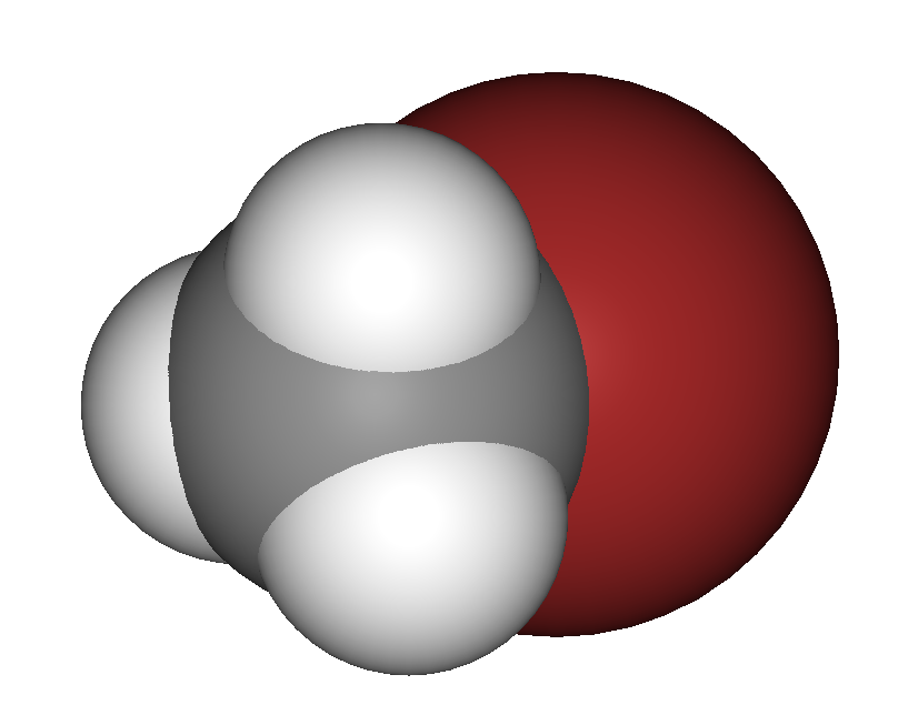 3D representation of bromomethane